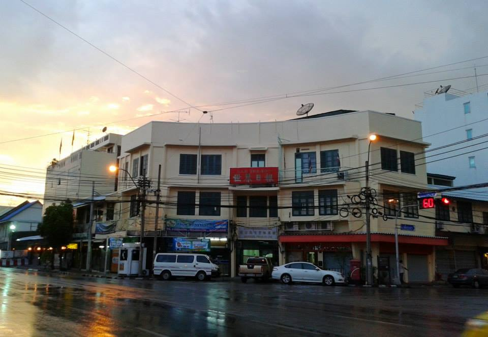 Shi Jie Ri Bao headquarter in Ban Mo, Phra Nakorn, Bangkok